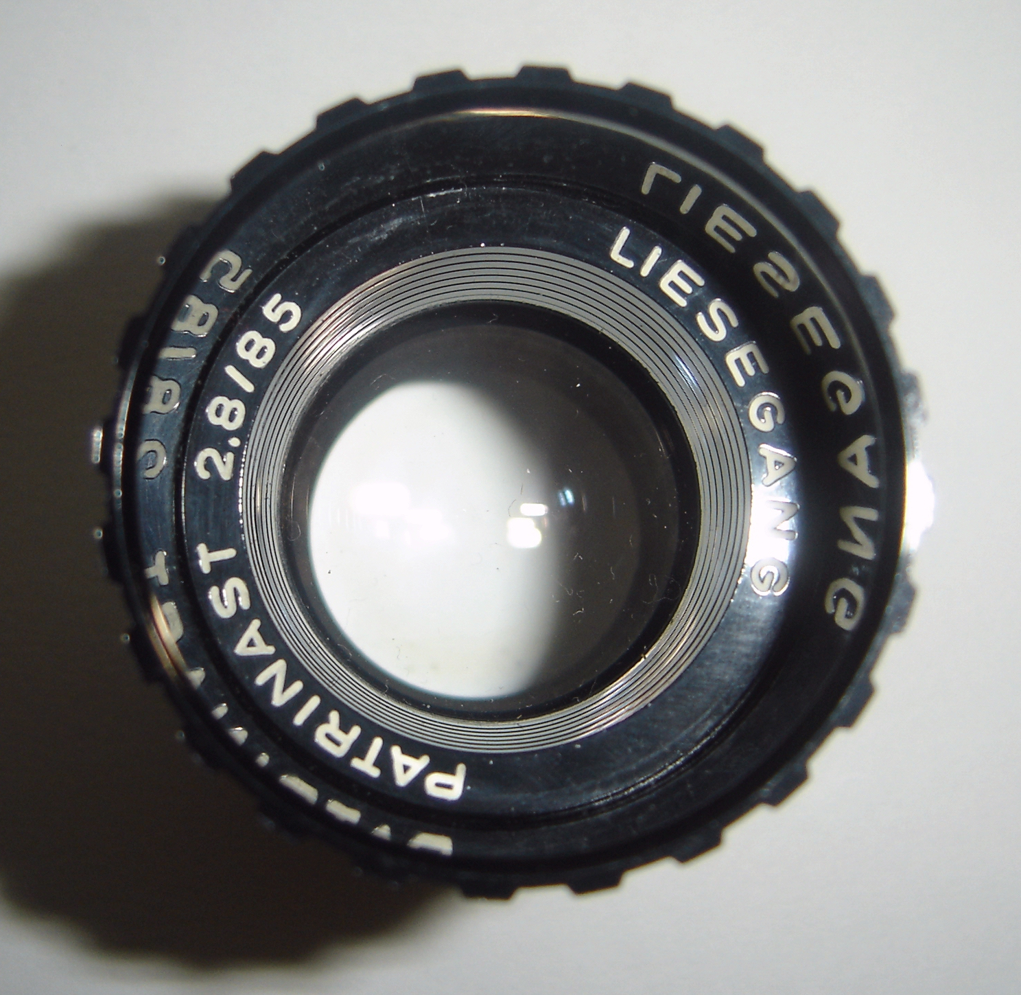 This is a version of the projection objective "Patrinast" produced for German optical company "Ed. Liesegang OHG", Duesseldorf (Germany). The aperture is given as 1:2.8, focal length 85mm, multi coated lenses. While projection objectives with a all-metal barrel were commonly used in slide projectors of the 1950 and early 1960s, this is a later plastics version with improved lens coating. Diameter of the tubus: 42mm. (top view)